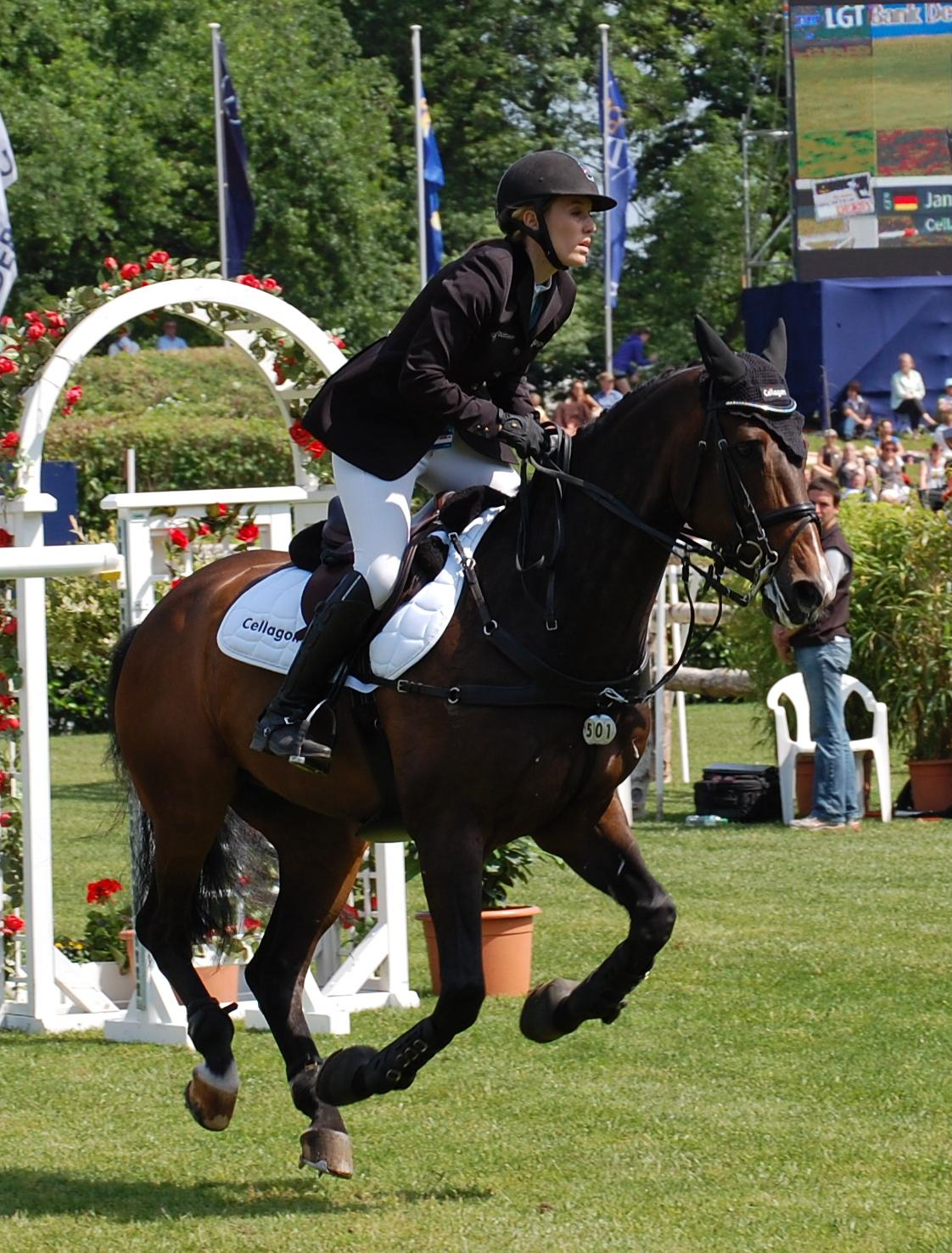 German rider Janne Friederike Meyer with Cellagon Lambrasco, "Championat von Hamburg", CSI 5* Hamburg 2011